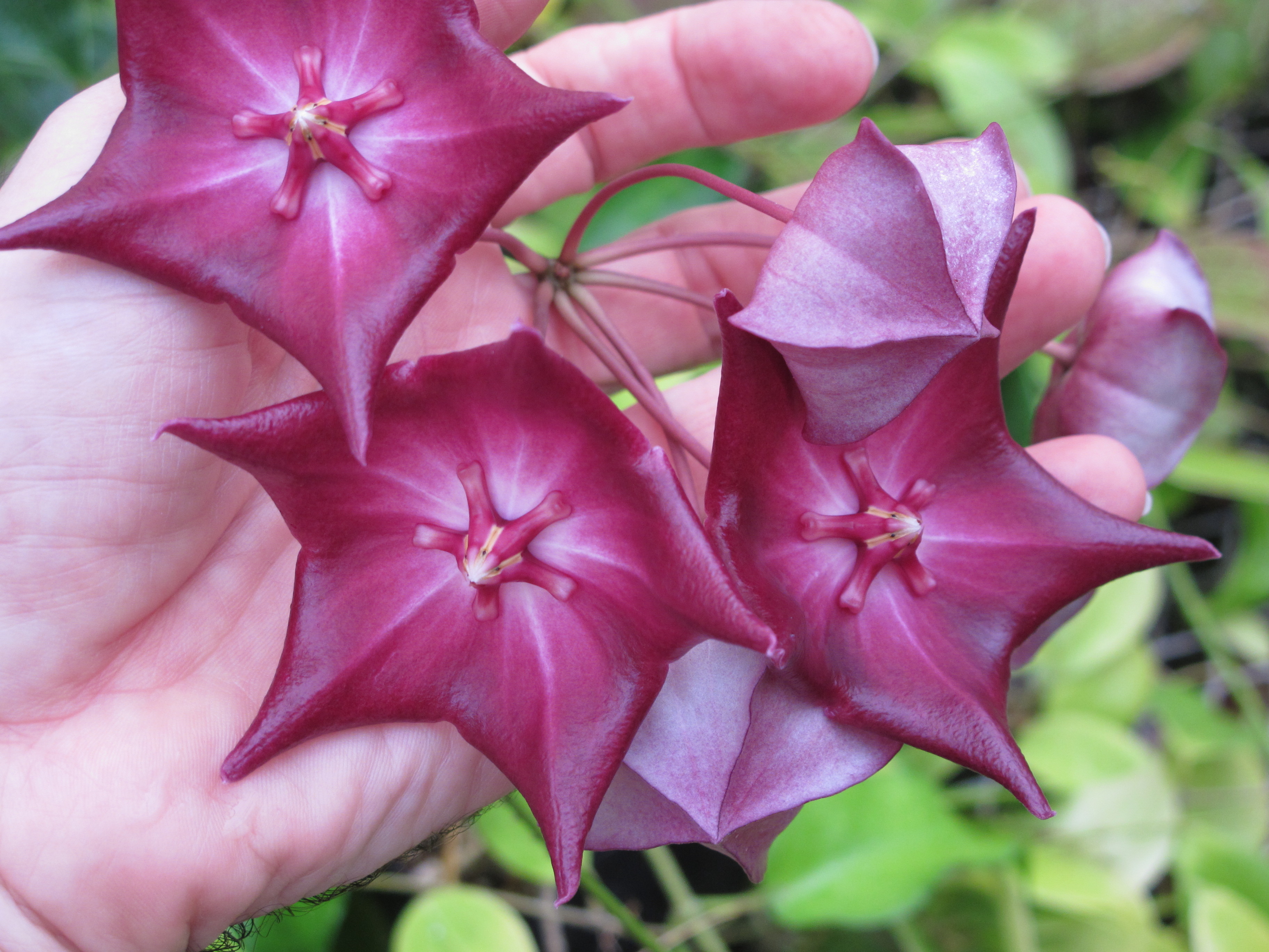 cultivated Biological Sciences Greenhouse, Florida International University, Miami, Florida, USA.